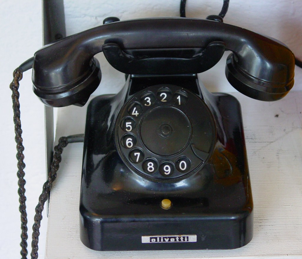 rotary dial telephone made out of bakelite